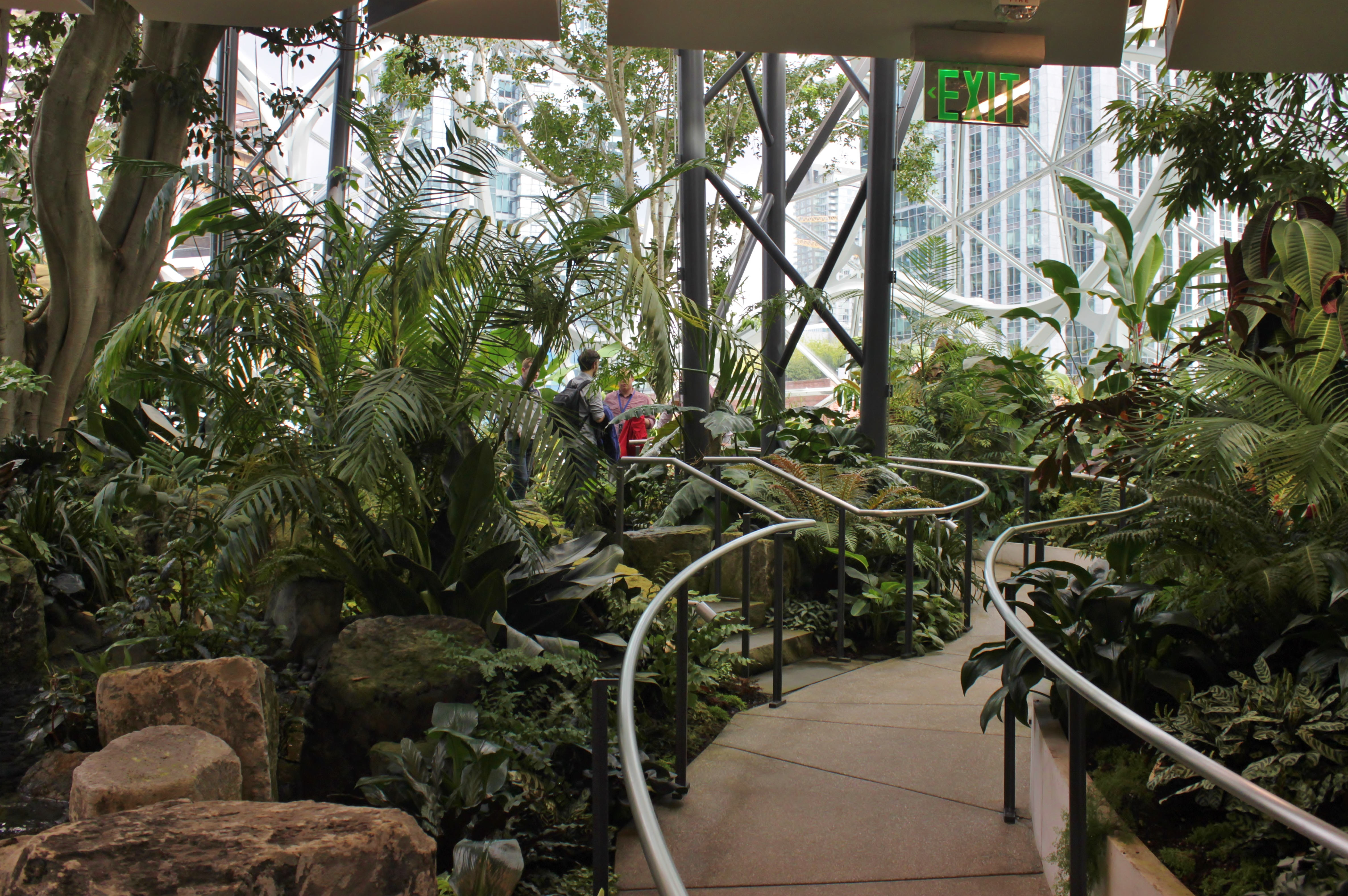 Inside the Amazon Spheres